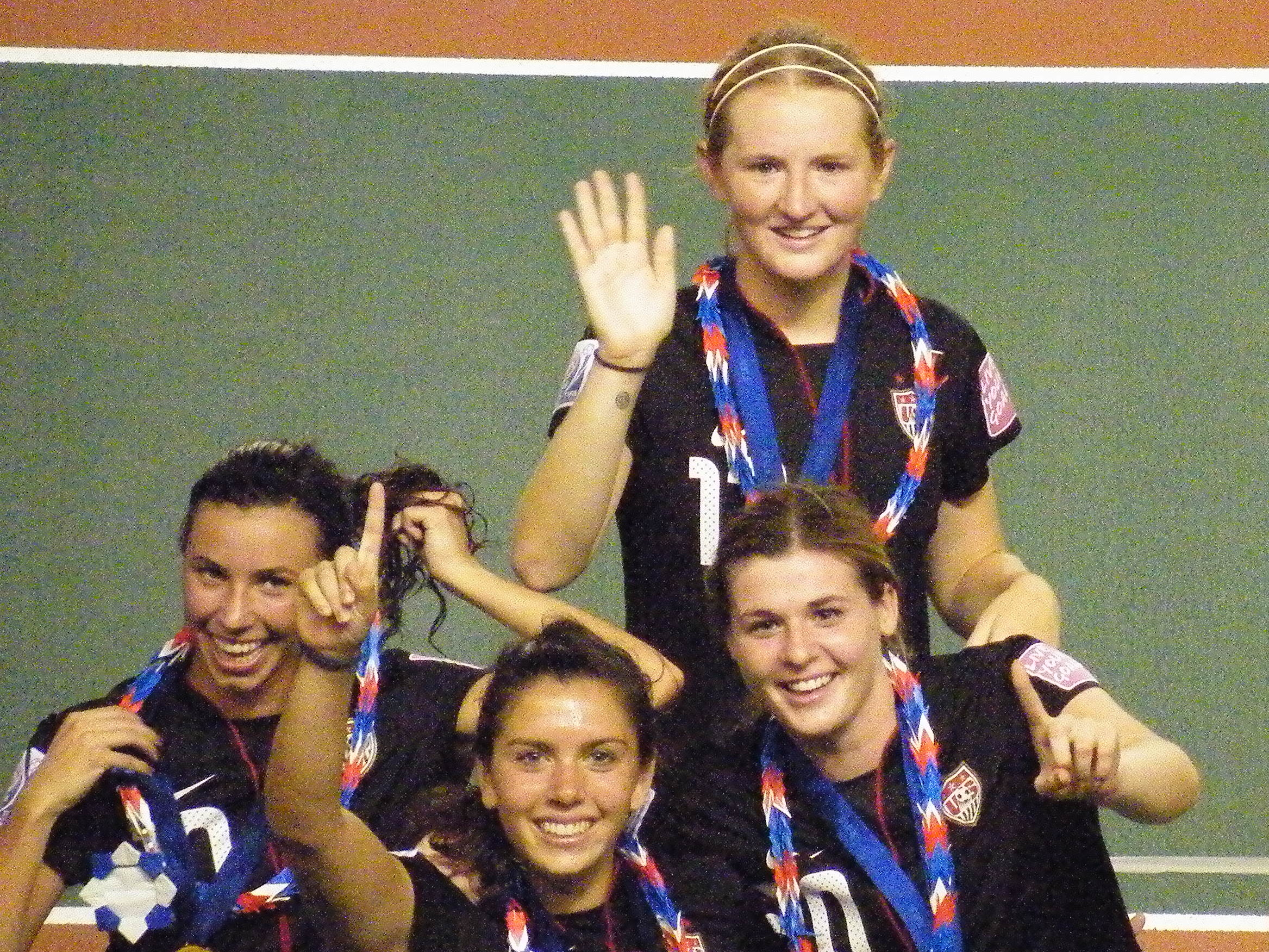 FIFA U-20 Women's World Cup 2012 Awards Ceremony